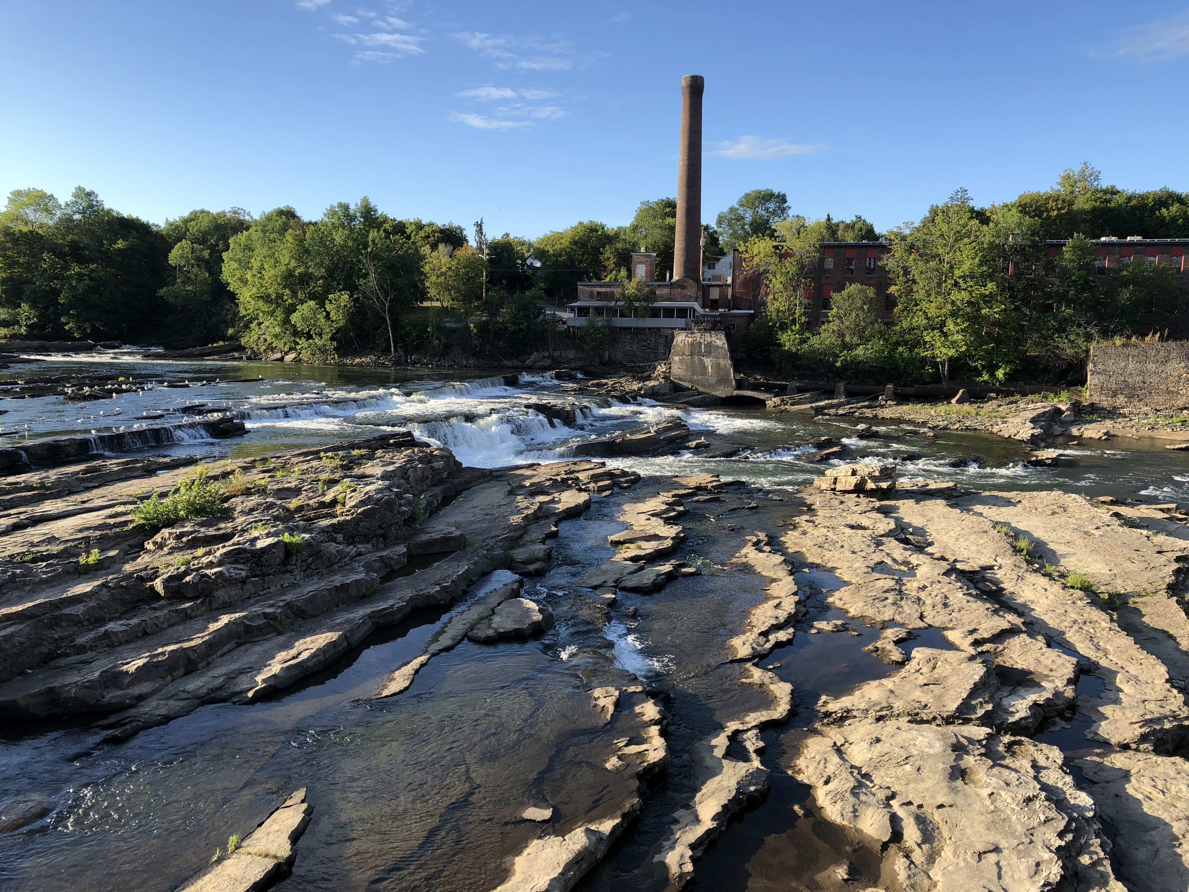 The Winooski River of Vermont, between the cities of Winooski and Burlington